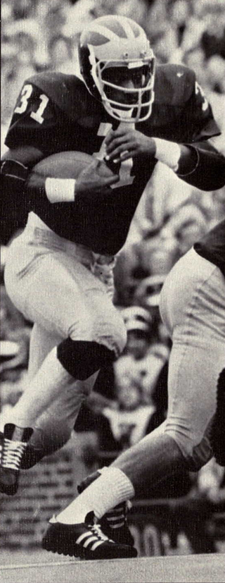 Photograph of Ed Shuttlesworth